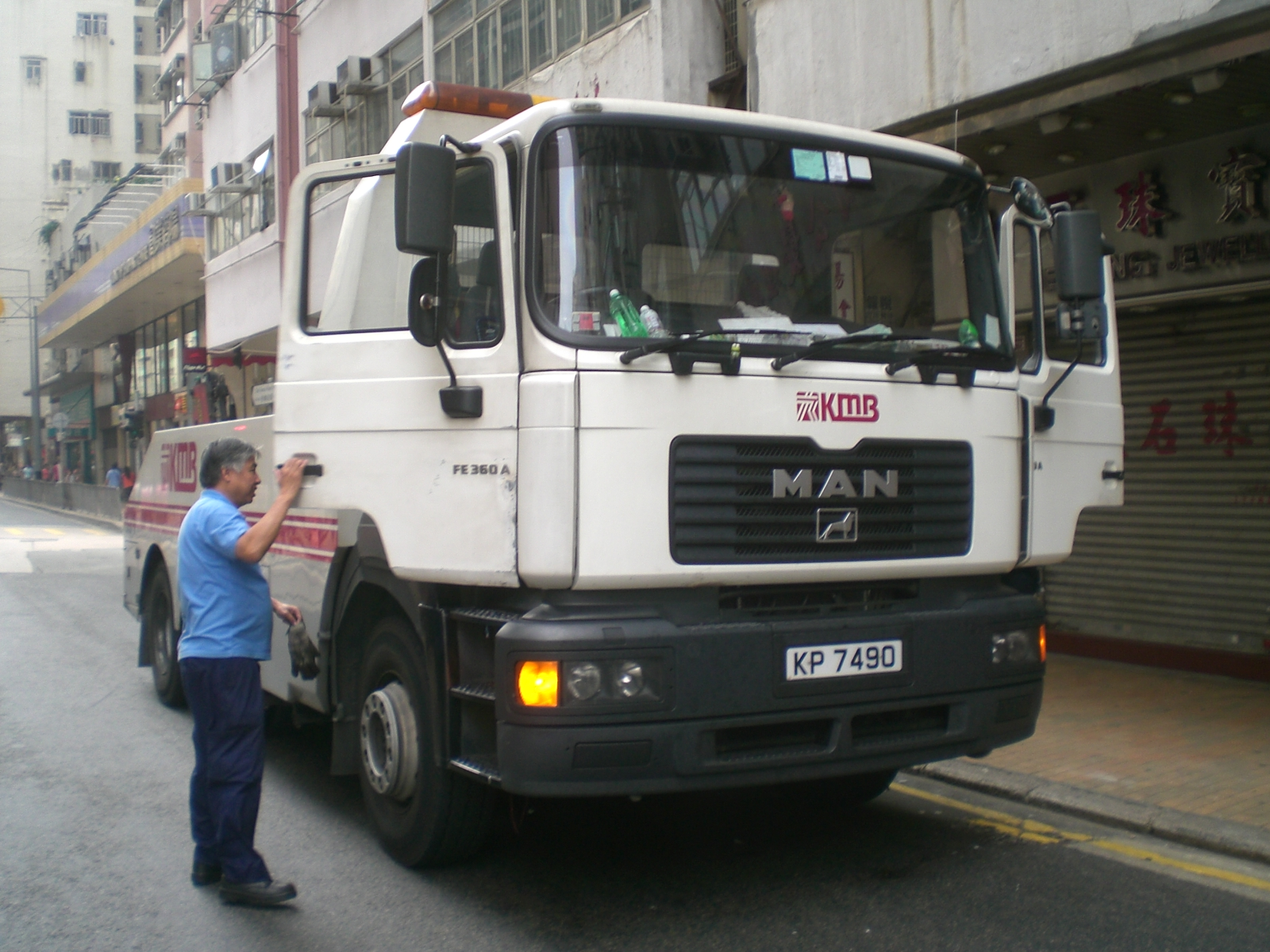 西環德輔道西鄰近街景九龍巴士後勤車